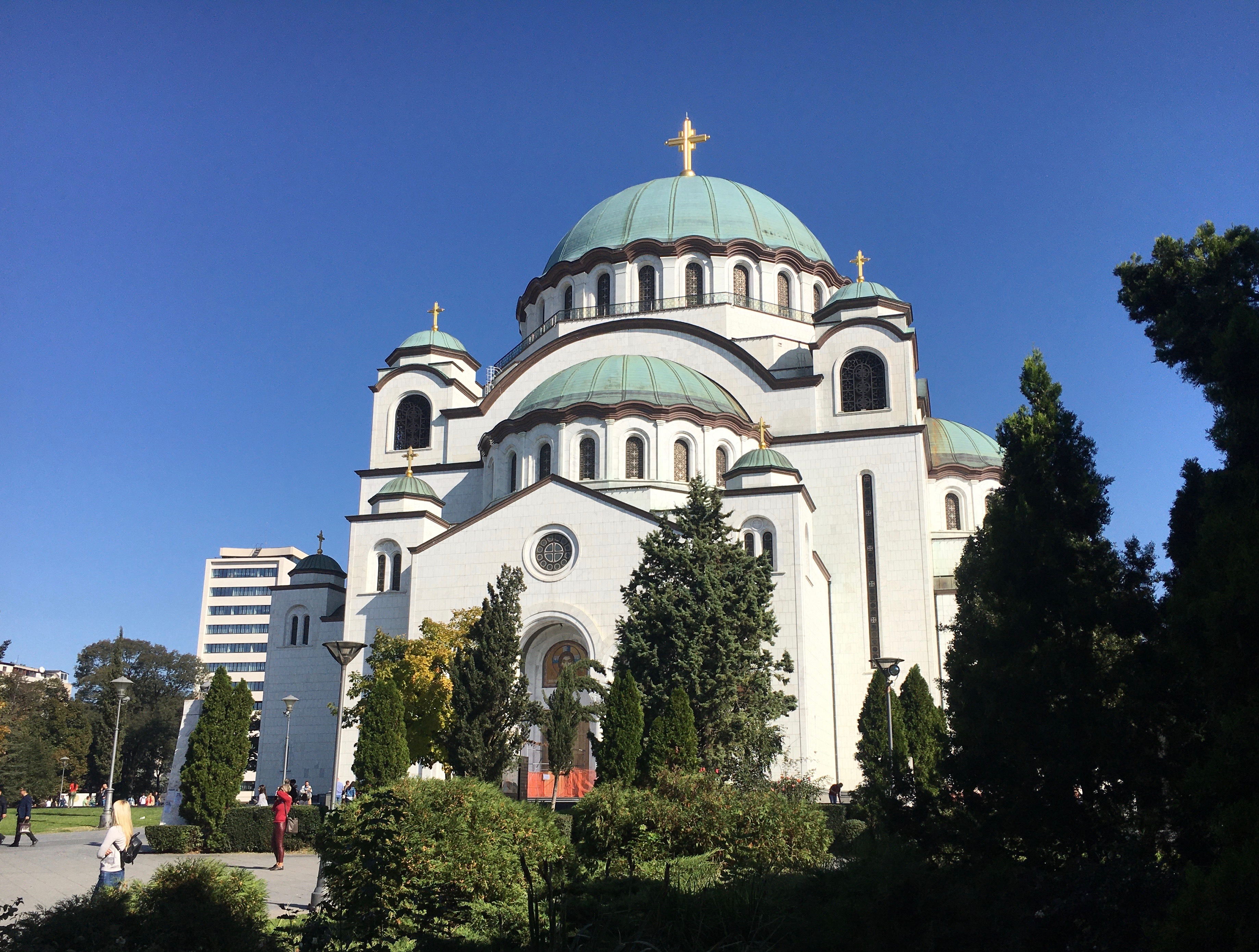 Church of Saint Sava, Autumn 2019